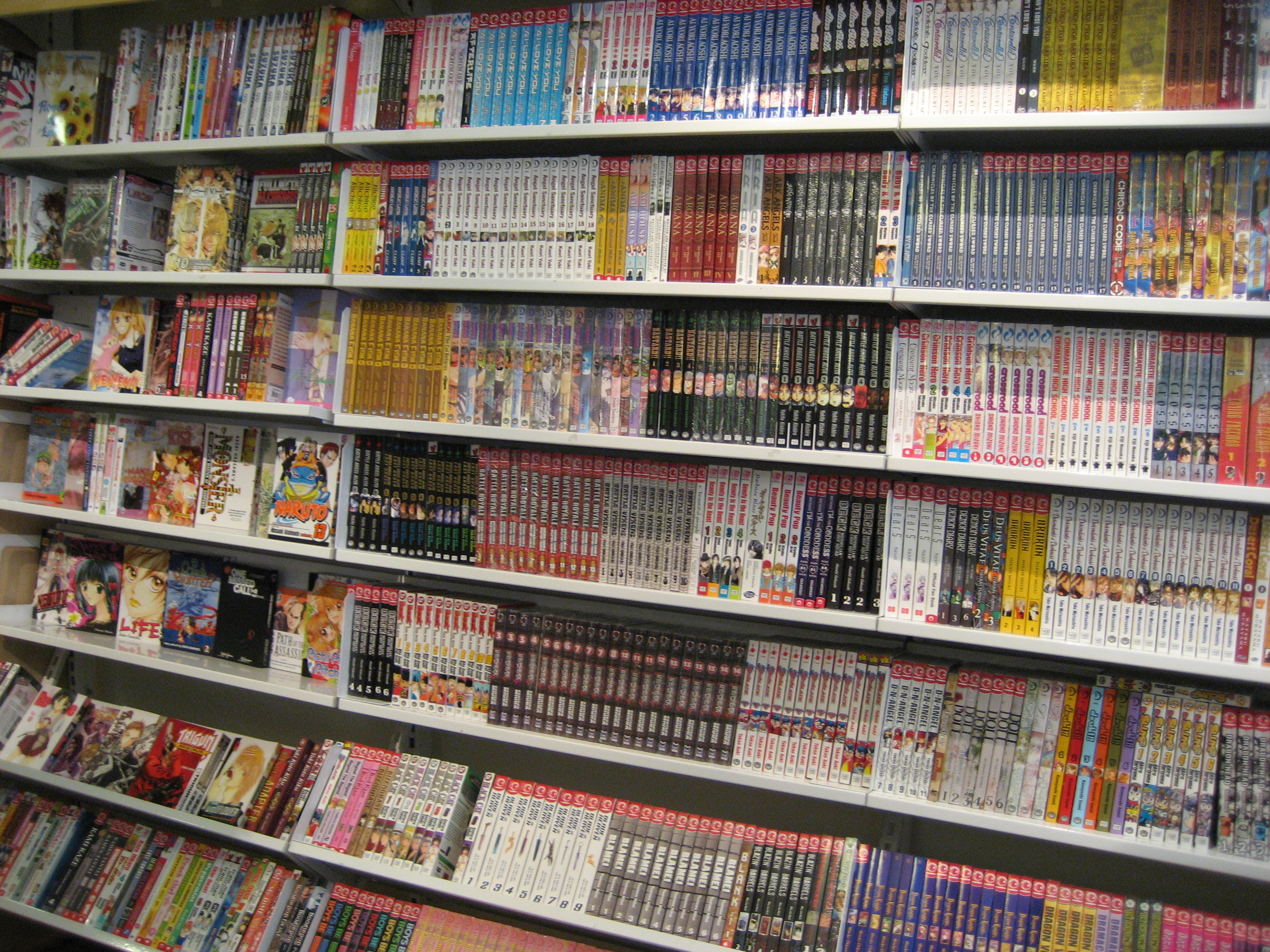 Tons of manga at "Science Fiction Bokhandeln", Gothenburg.